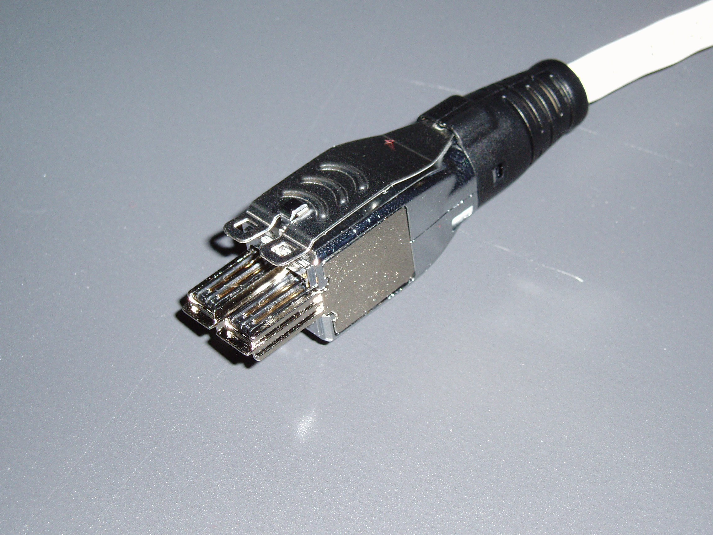 A Tera Network Cable Connector